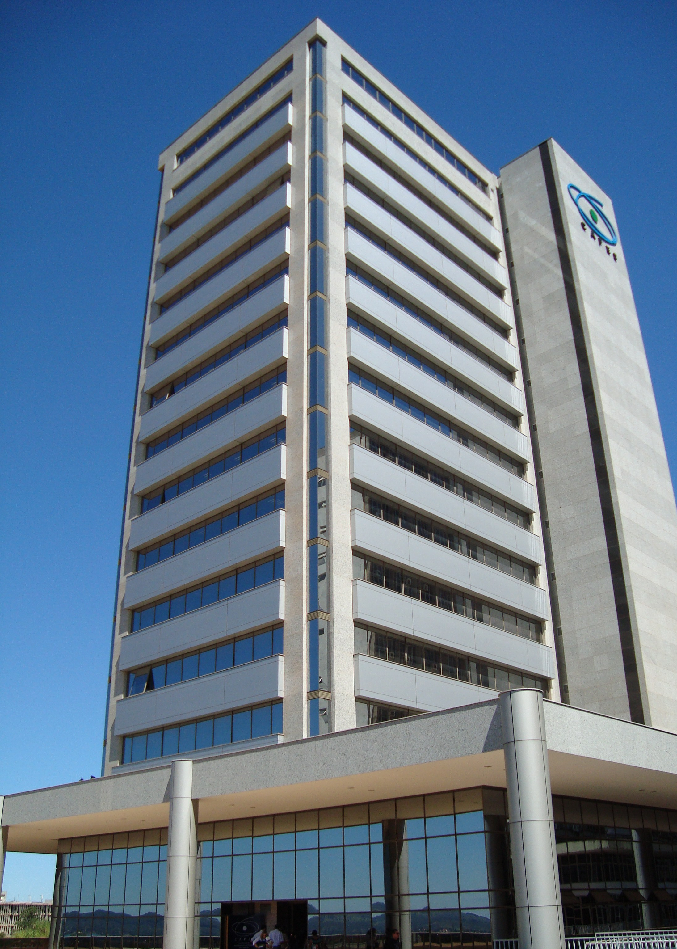 CAPES headquarters at Brasilia, Brazil